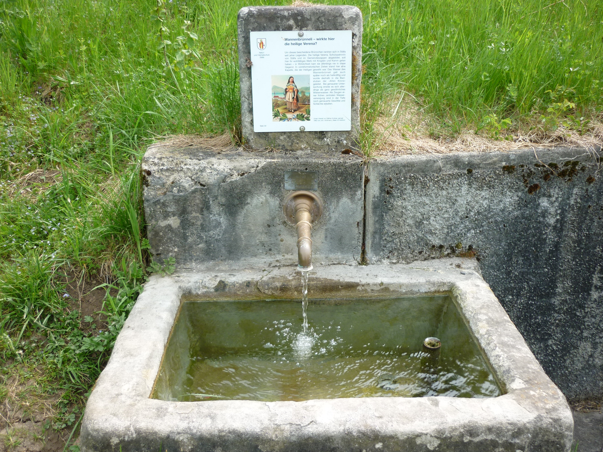 Holy water dedicated to Sant Verena, Stäfa ZH, Switzerland